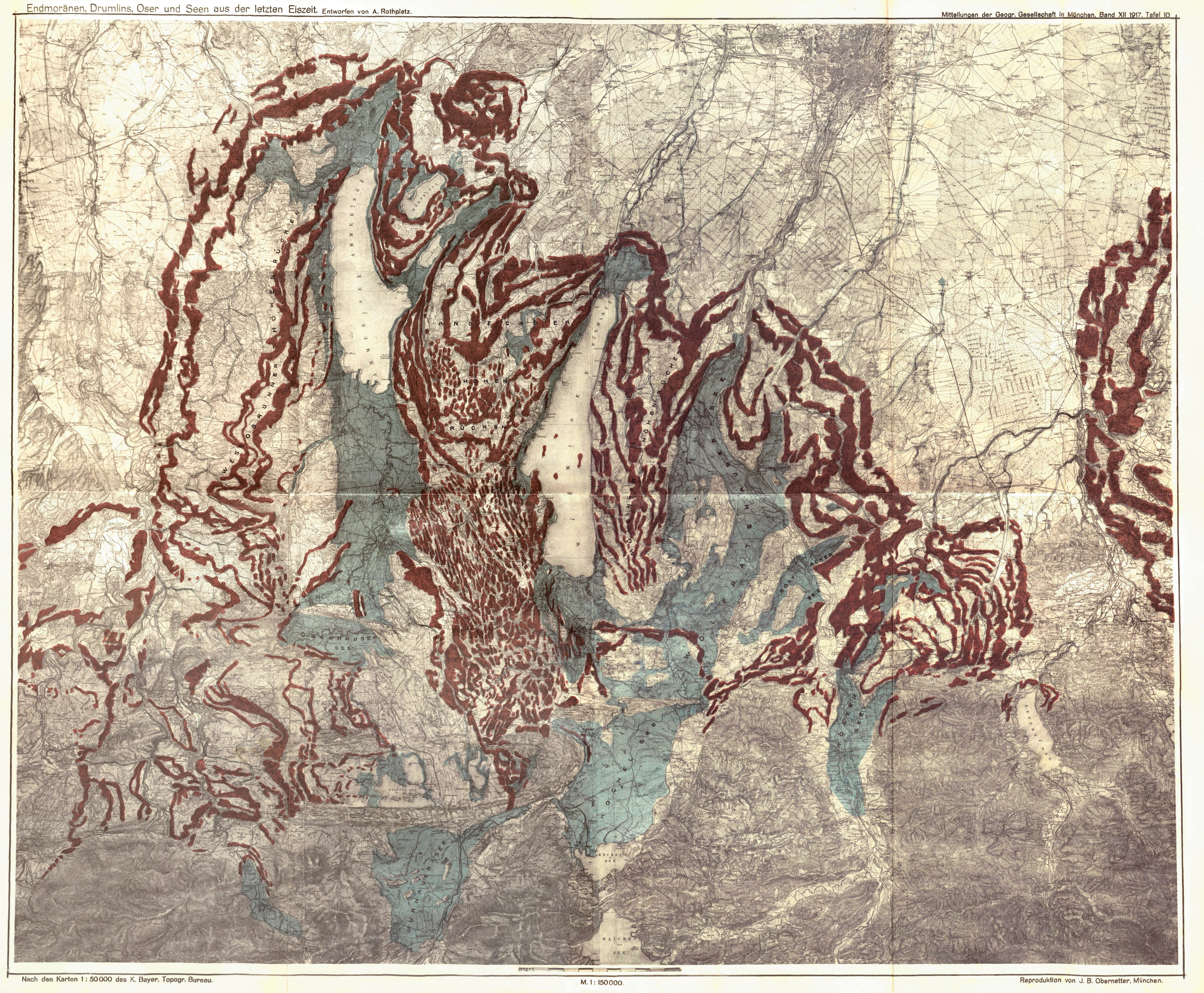 Map of the Osterseen Lake area and the prehistoric Isar-Loisach-Glacier in southern Bavaria below the alps, showing the maximum reach of the glacier at the end of the latest ice age, morains and other glacial morphological objects and the glacial lakes appearing from the melting glacier. All lakes are shown in their maximal size despite they did not reach that at the same time, so the state shown on this map did not happen at one single point of time.Morainswalls (red) and barrier lakes (blue)